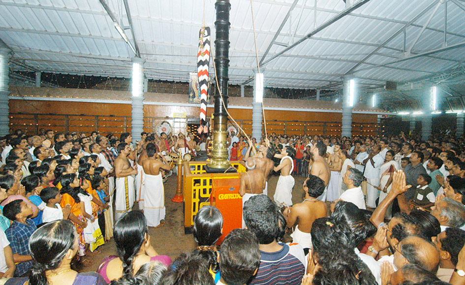 Kotiyettam of the festival of Chirakkal Kadalayi sreekrishna temple where the same idol worshiped by Sathyabhama,consort of Krishna worshipped. visit formoreinformation